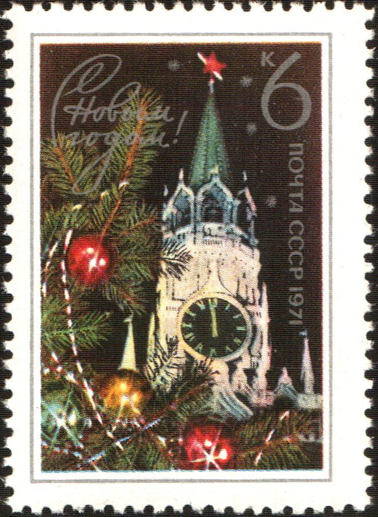 USSR stamp: Branchs of Decorated New Year Fir and Spasskaya Tower of the Moscow Kremlin. Series: New Year 1971